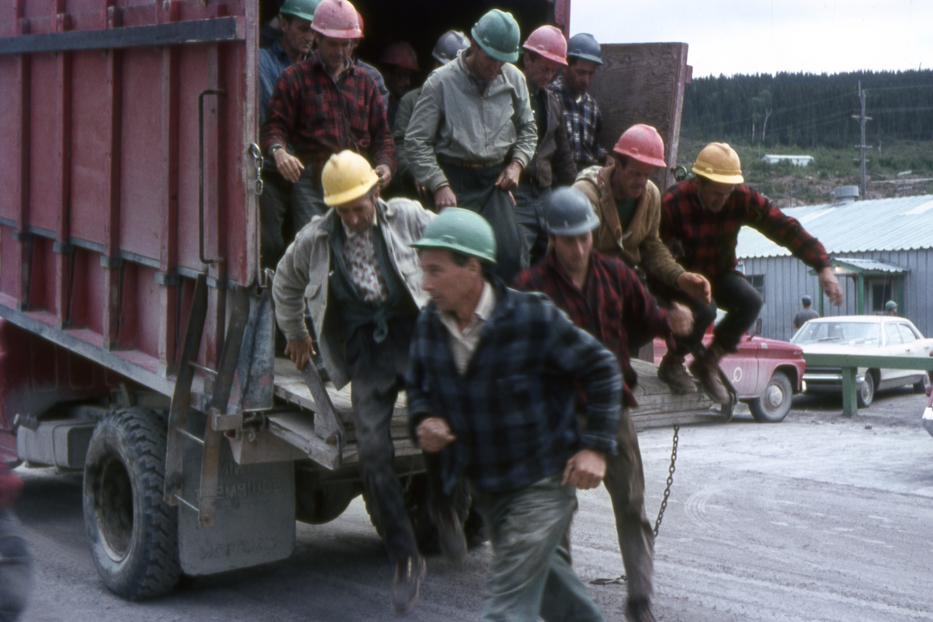 Workers on the site of Manic 5, dam of the Manicouagan-Outardes hydroelectric Complex - Quebec - Canada 1968